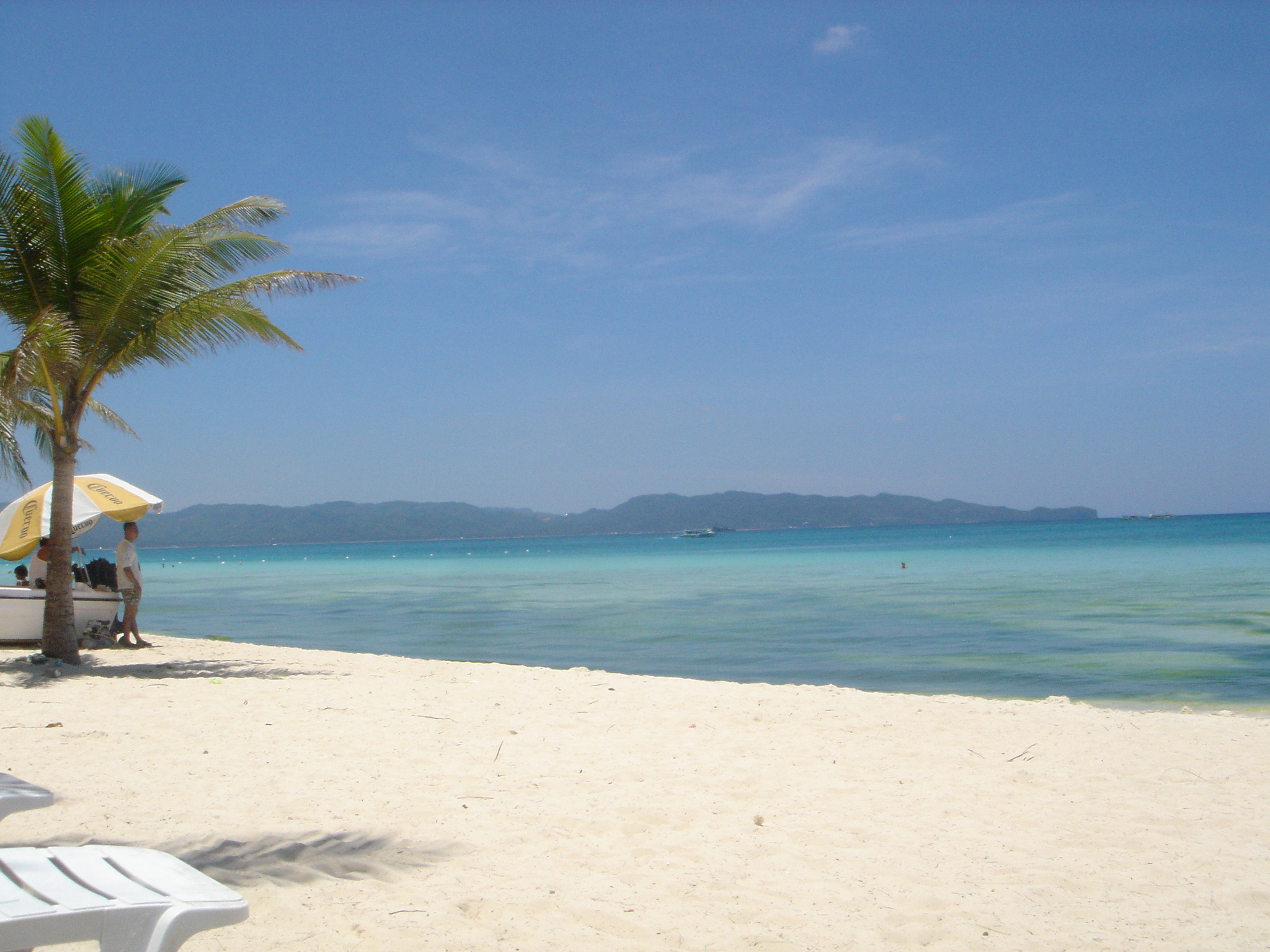 Boracay's White Beach. My favorite spot on God's good earth. :o).